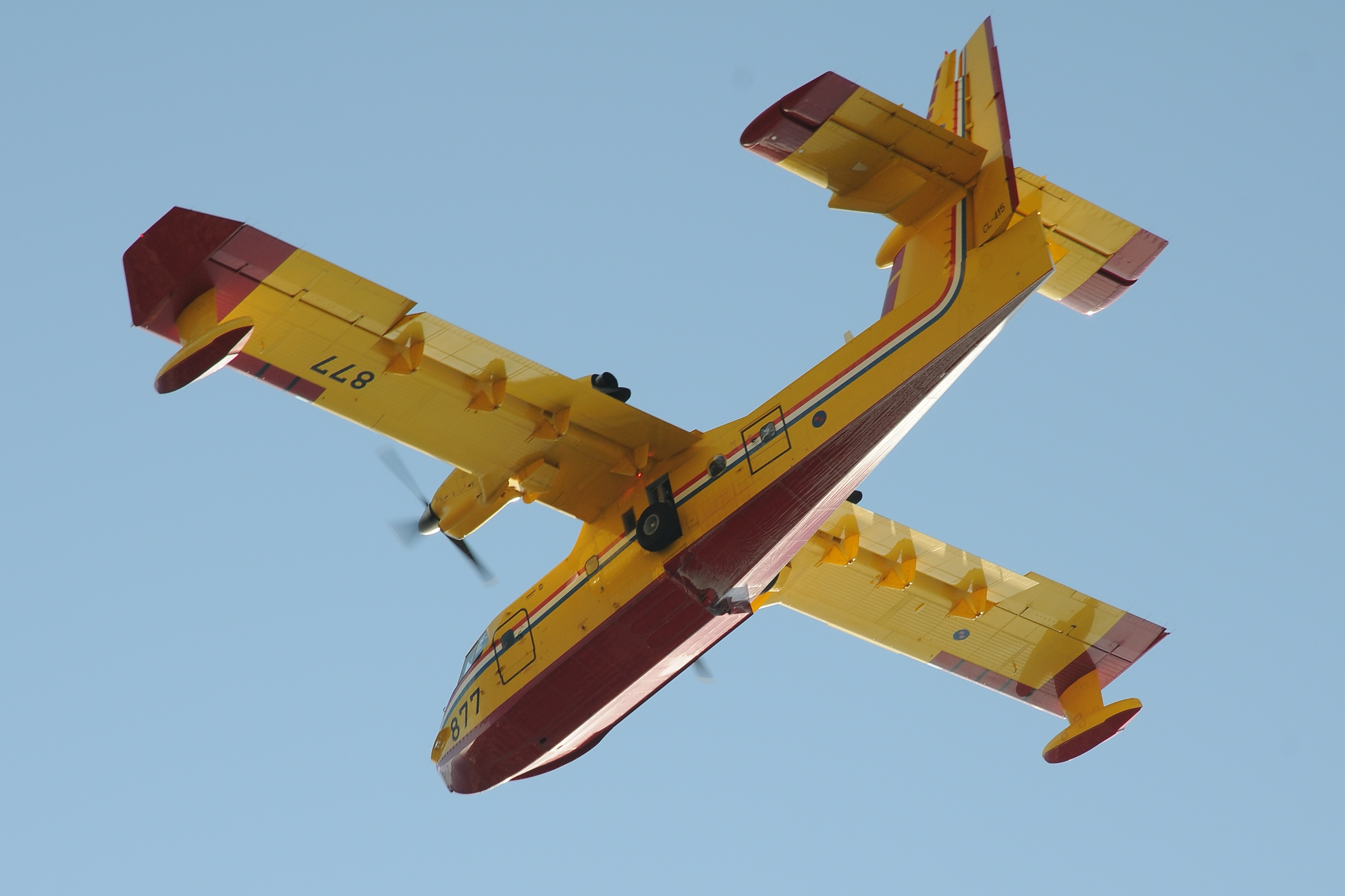 The Bombardier 415 (formerly Canadair CL-415) is a Canadian amphibious aircraft purpose-built as a water bomber.